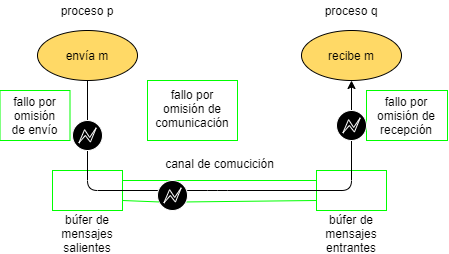 Fallo por omisión en comunicaciones en un sistema distribuido.